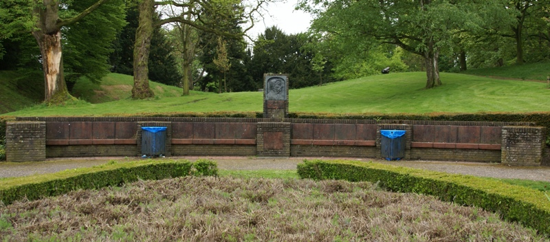 Bench conmemorating the 25th anniversary of Mayor Leopold Van Oppen as mayor of Maastricht, Waldeckpark, Maastricht, The Netherlands. By Charles Vos and students of the Maastricht Art School, 1935. The bronze relief on this photograph was stolen in January 2011 and has been replaced by a stone reproduction.